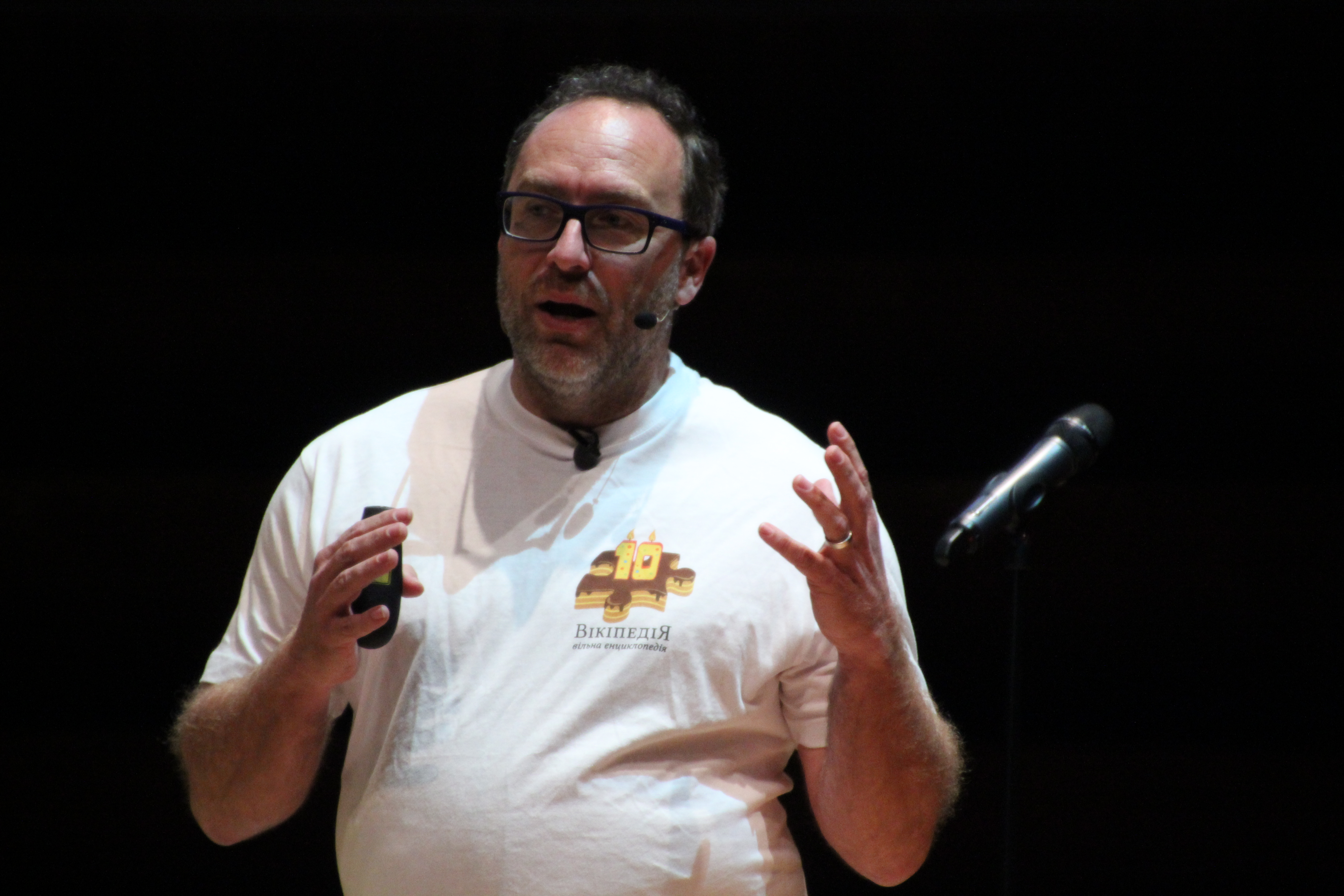 Wikimania 2014 in London, England.